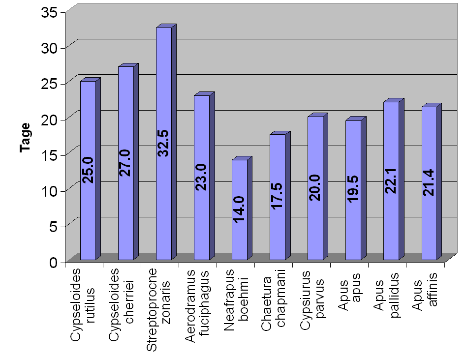 Incubation periods of a variety of swifts, taken from: Phil Chantler, Gerald Driessens: A Guide to the Swifts and Tree Swifts of the World. Pica Press, Mountfield 2000, ISBN 1-873403-83-6, page 28